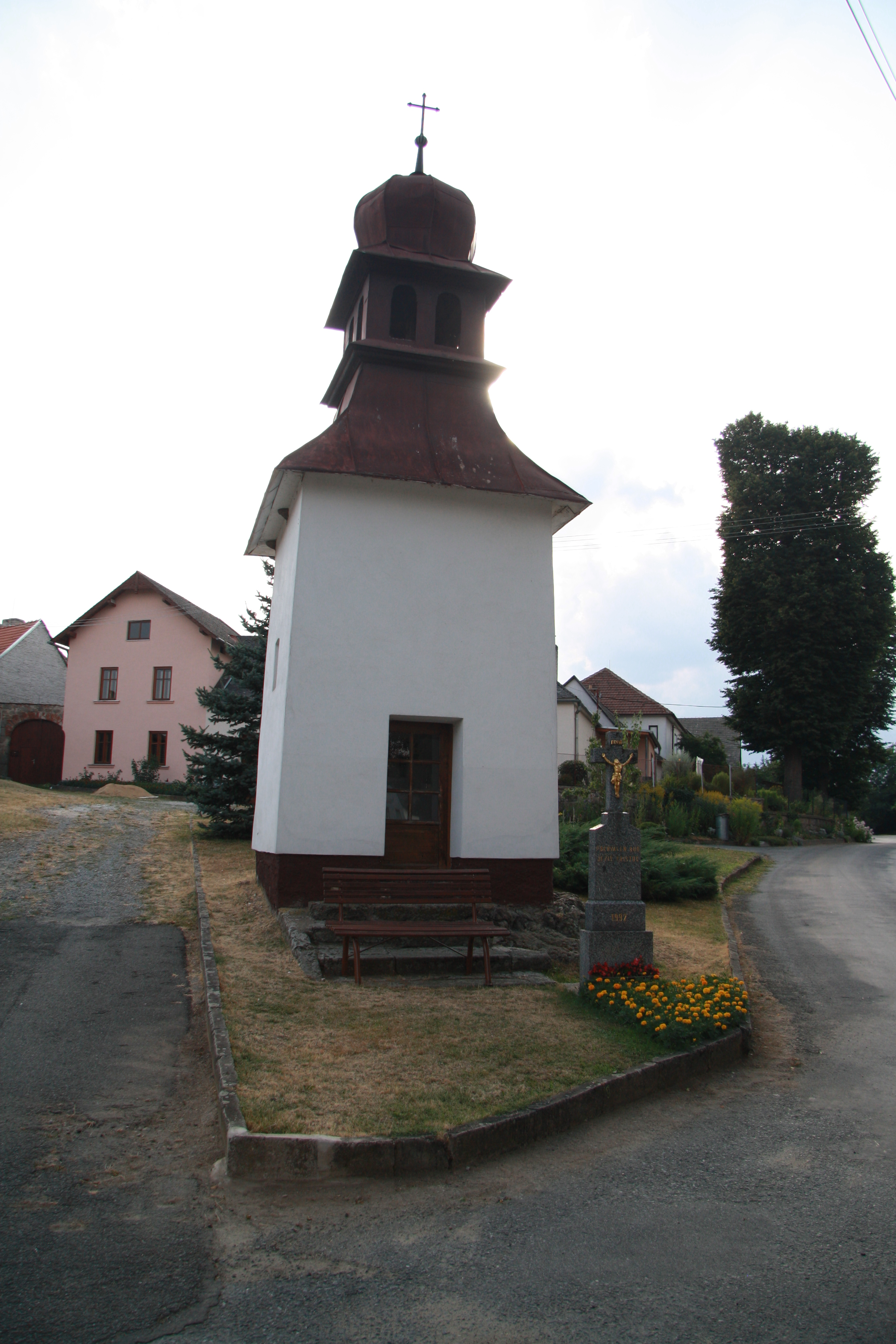 Chapel of John of Nepomuk in Kamenná, Třebíč District.